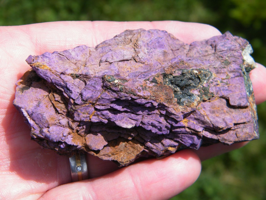 Heterosite (size: 3.5" x 2.5" x 1.5") Locality: Newry, Oxford County, Maine, USA original description: Seriously purple old collection specimen of heterosite (labeled pupurite) from Newry, Maine.